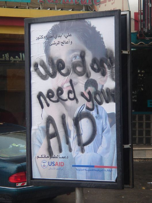 Photo taken in Jan 2007, In Ramallah/Al-bireh, on the main street heading to Jerusalem/Qalandia Checkpoint of a poster on advertisement space, printed as an advertisement for the USAID (by the USAID): Arabic translation: (text on poster) Ali: I want to become a doctor and treat illness (text at bottom) In support of your (plural) aspirations And graffiti on it saying "We dont need your AID"